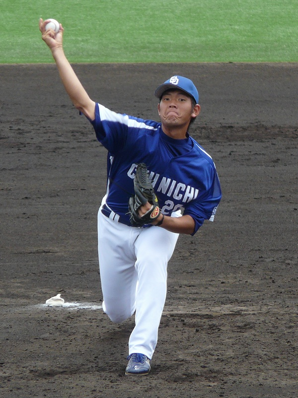 CD-Tatsuo-Kinoshita20110615